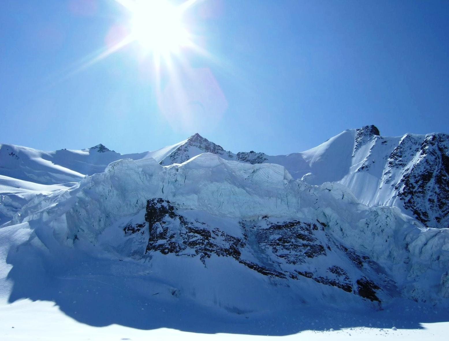 Stecknadelhorn and Hohberghorn, seen from the Ried glacier at 3.500 metres above sea level